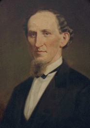 Portrait of Mayor John G. Baxter by George Dury, Memphis Brooks Museum of Art